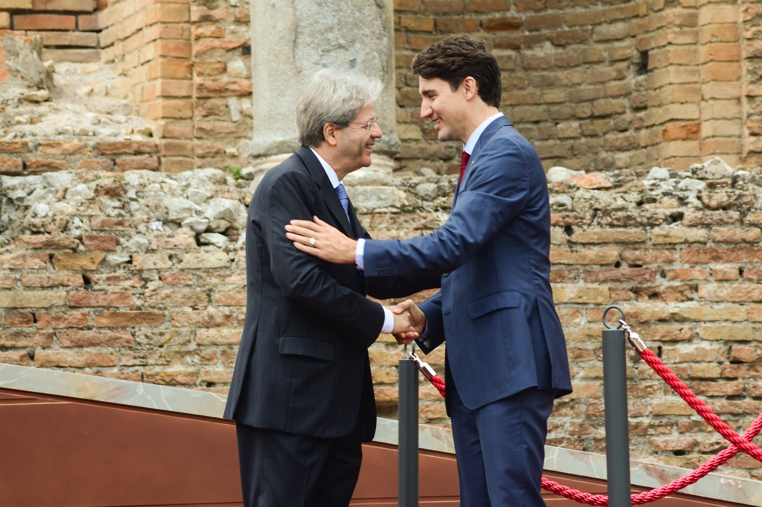 Handshake of Paolo Gentiloni and Justin Trudeau during the 43rd G7 summit